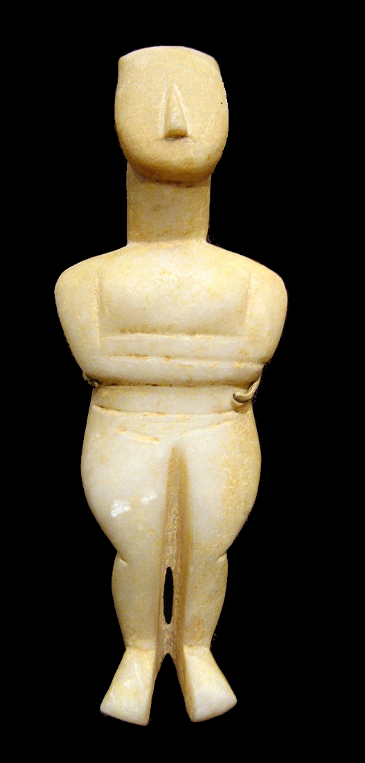 Cycladic female figurine, from Museum of Cycladic Art at Athens - Canonical type, early work of the Spedos variety, 17.3 cm, #104a in the 1968 catalogue